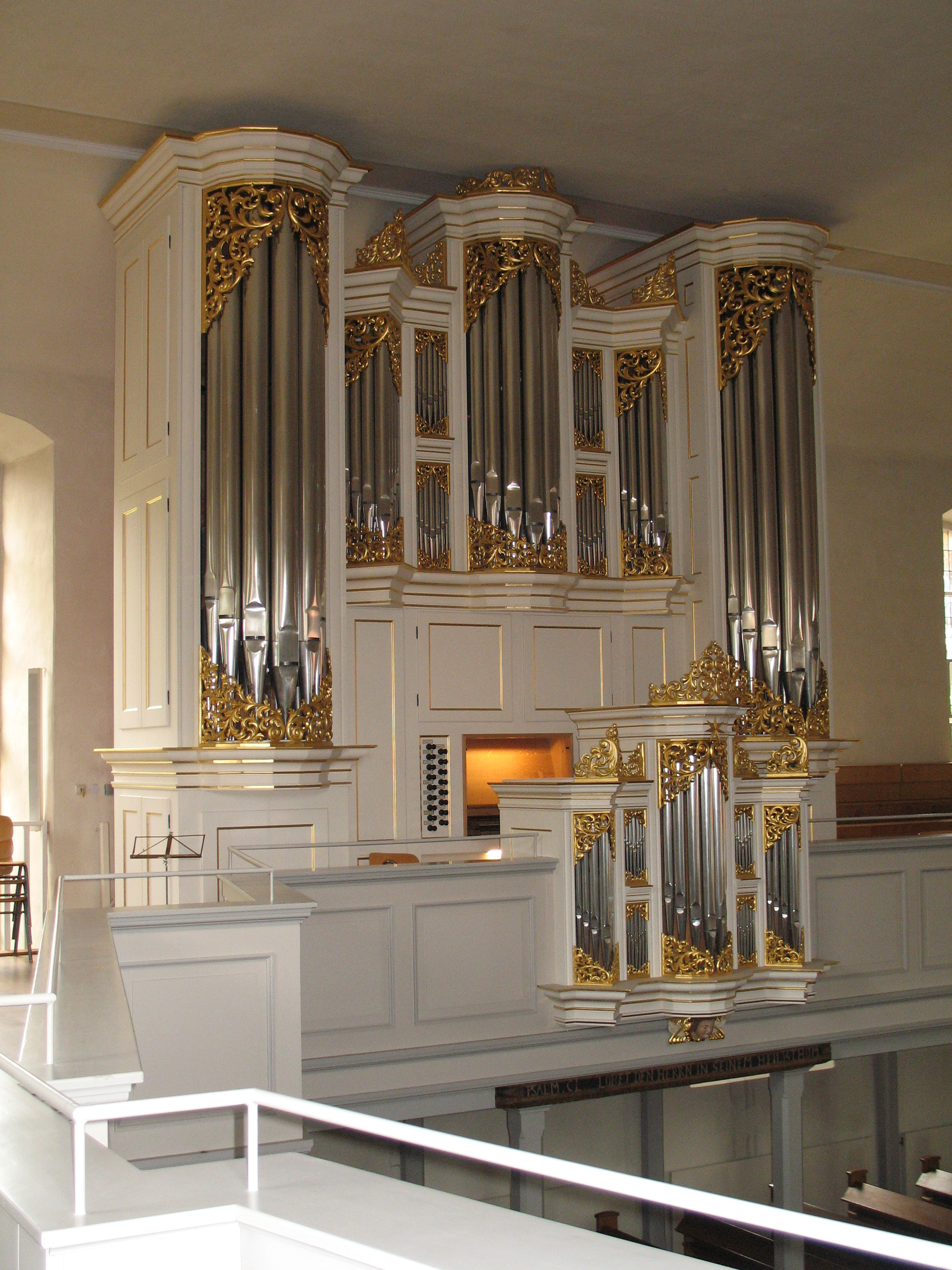 Organ in Hardegsen